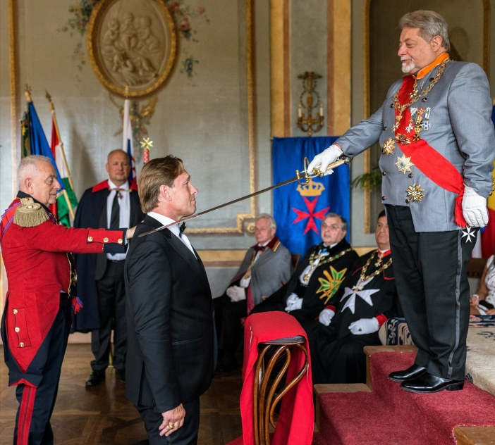 Magnus Cederblad knighted by Prince José Cosmelli, Grand Master of KMFAP, at Château Belá in Slovakia on the 18th of July in 2020.